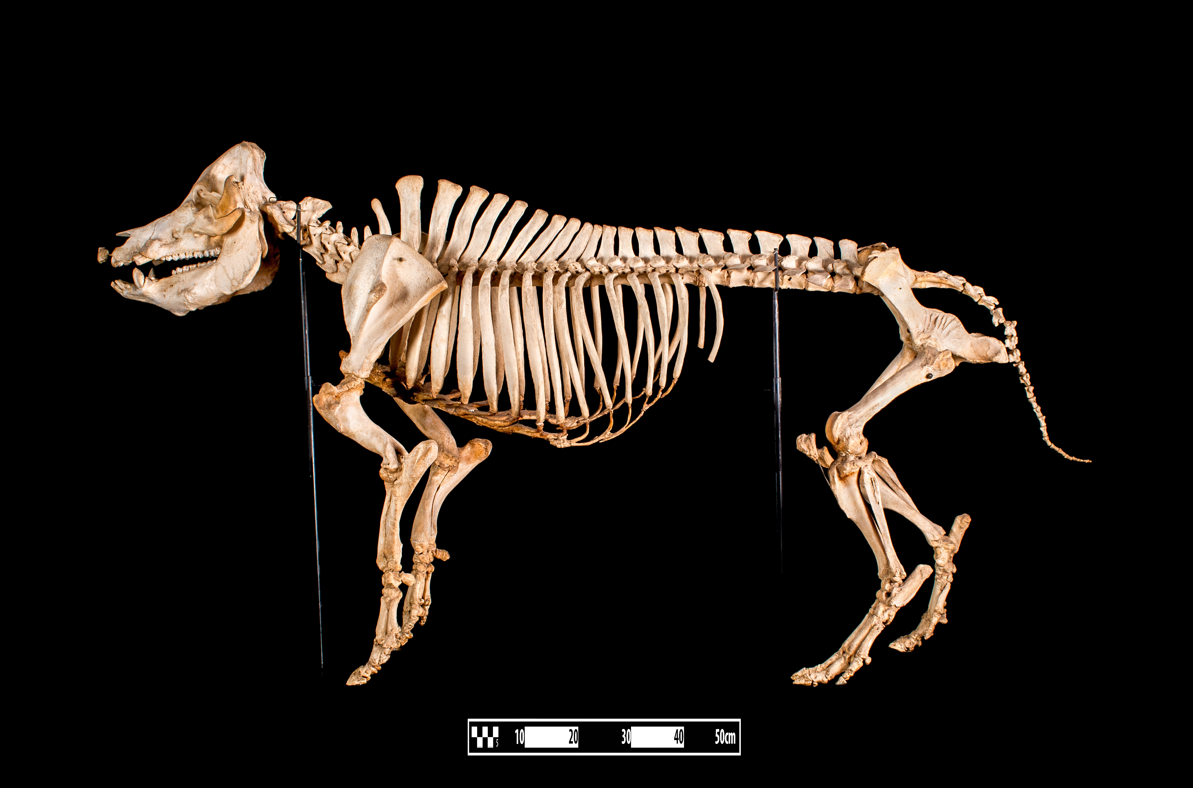 Swine. Sus Skeleton specimen of a swine prepared by bone maceration technique in display at the Museum of Veterinary Anatomy FMVZ USP. Pigs are omnivores and have 44 teeth, including the curved canines or tusks, which are of continuous growth in the boar but not in the sow. They have short limbs with four fingers finishing in hoofs. The head has a triangular profile ending at the disclike snout, which is supported by the rostral bone attached to the nasal cartilages. This anatomical configuration of the muzzle allows the pig to use its nose as a shovel to dig roots. Pork is the most consumed meat in the world – corresponding to about 45 % of the global meat market. This file was published as the result of a partnership between the Museum of Veterinary Anatomy FMVZ USP, the RIDC NeuroMat and the Wikimedia Community User Group Brasil. This GLAM project is reported. Photography: Museum of Veterinary Anatomy FMVZ USP Author: Wagner Souza e Silva